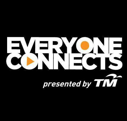 The Everyone Connects logo as seen on Facebook and Twitter